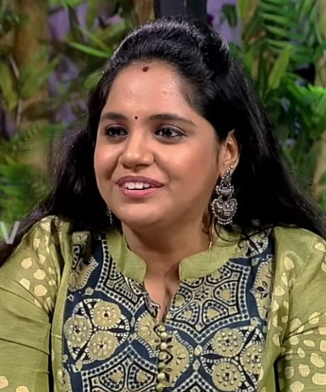 Saindhavi Prakash interview